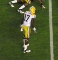 At the 2011 LSU vs Alabama game